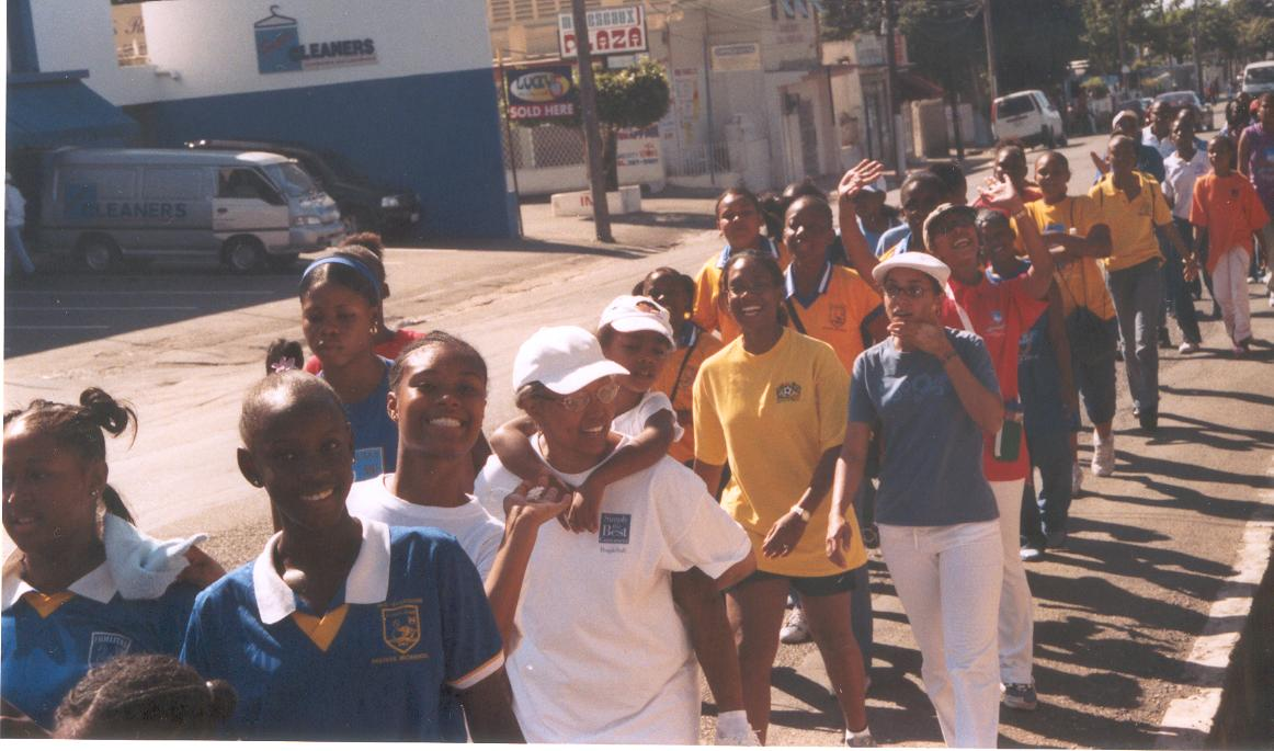 Walk to celebrate the 105th Anniversary of St.Hugh's High School for Girls. January 2004. Author Gwyneth Davidson